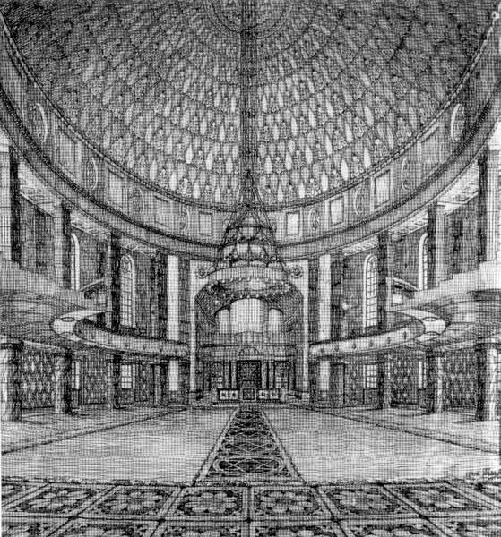 Interior of the Great synagogue of Mayence (Mainz) in Germany, built in 1912, destroyed by the nazis during Kristal Nacht in 1938.